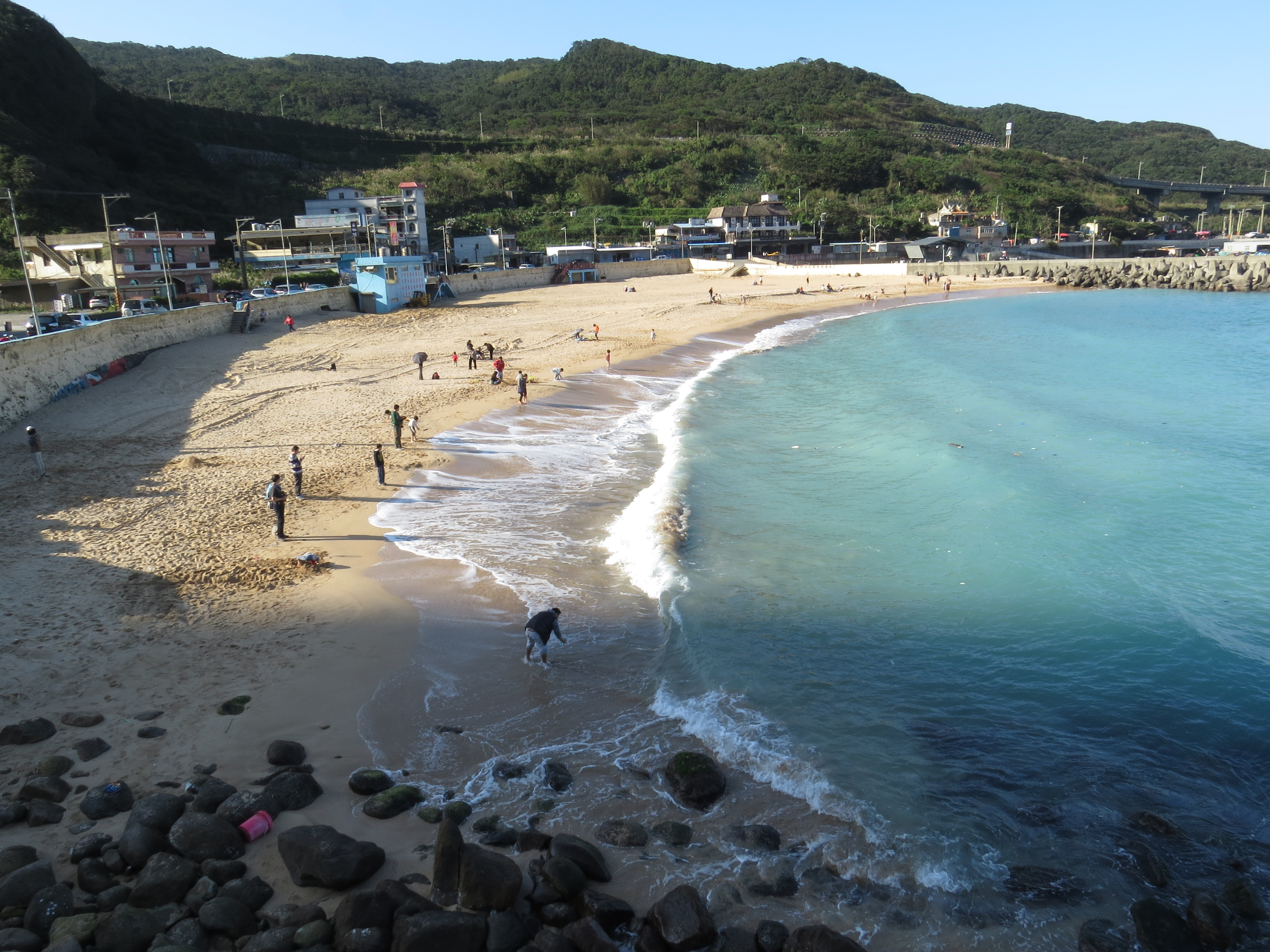 Dawulun Beach中文（台灣）: 基隆市安樂區大武崙澳底沙灘。